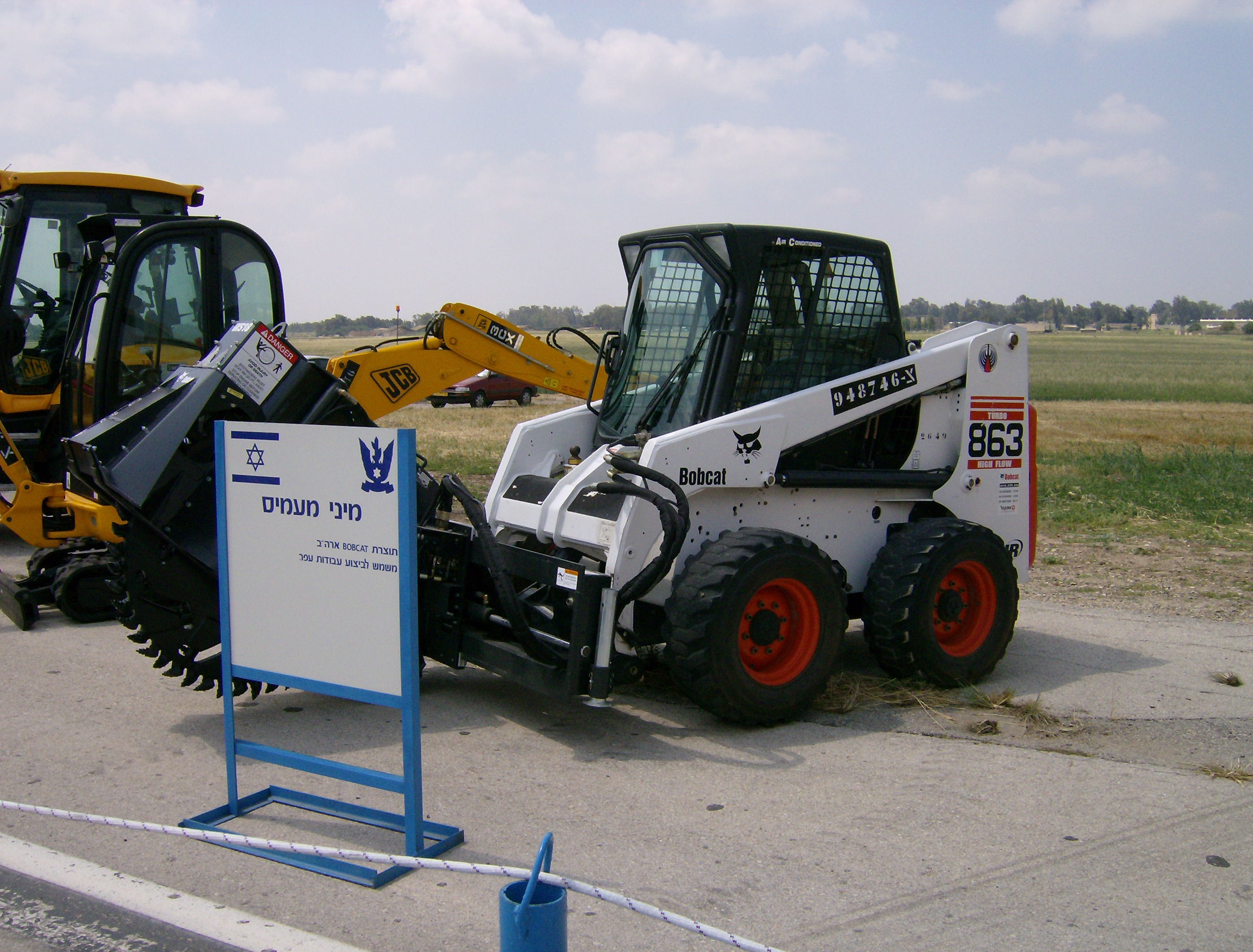 A Bobcat 863 skid-steer loader in the service of the Israeli air force